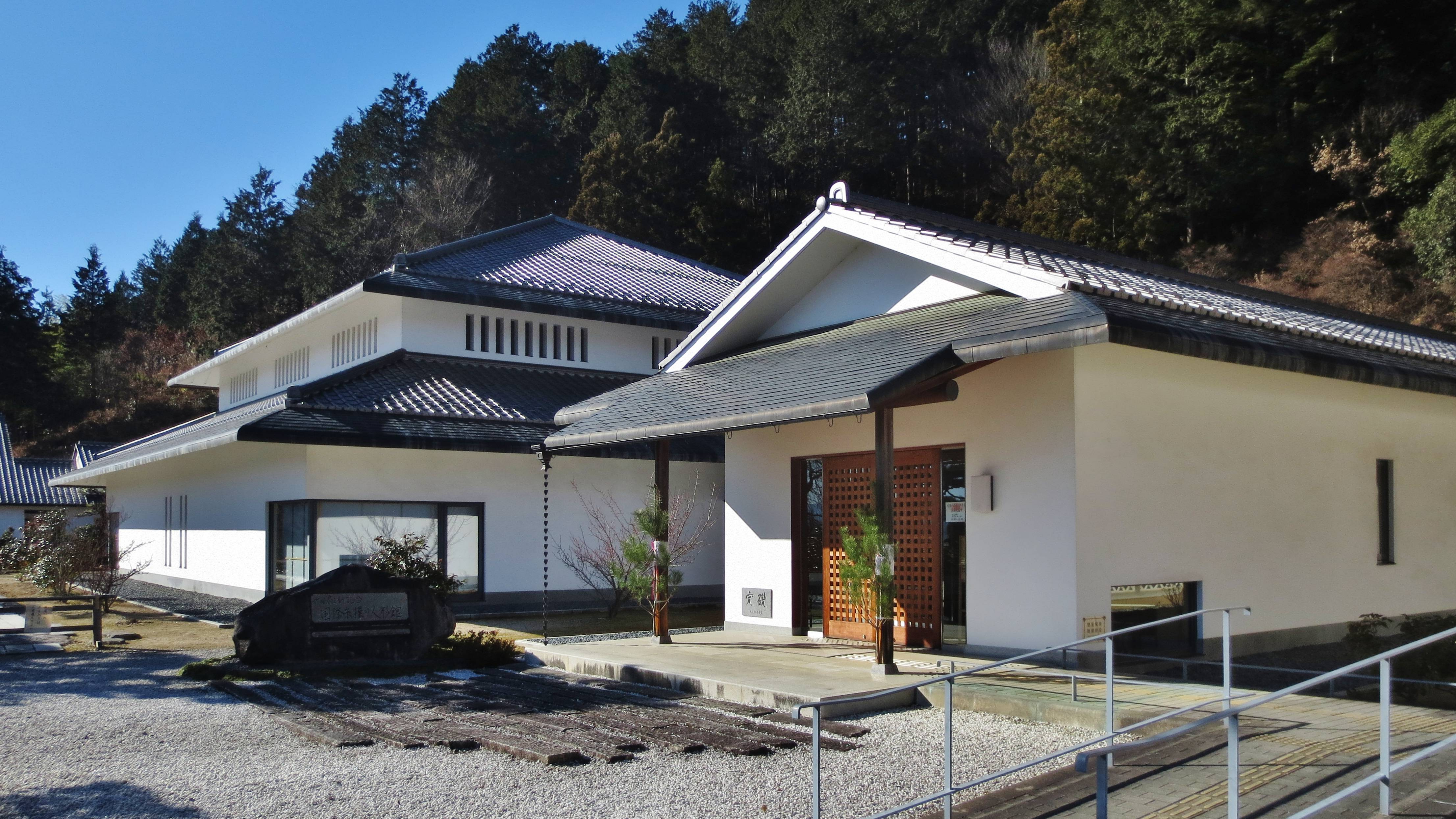 Takeda Memorial International Marionette Museum.